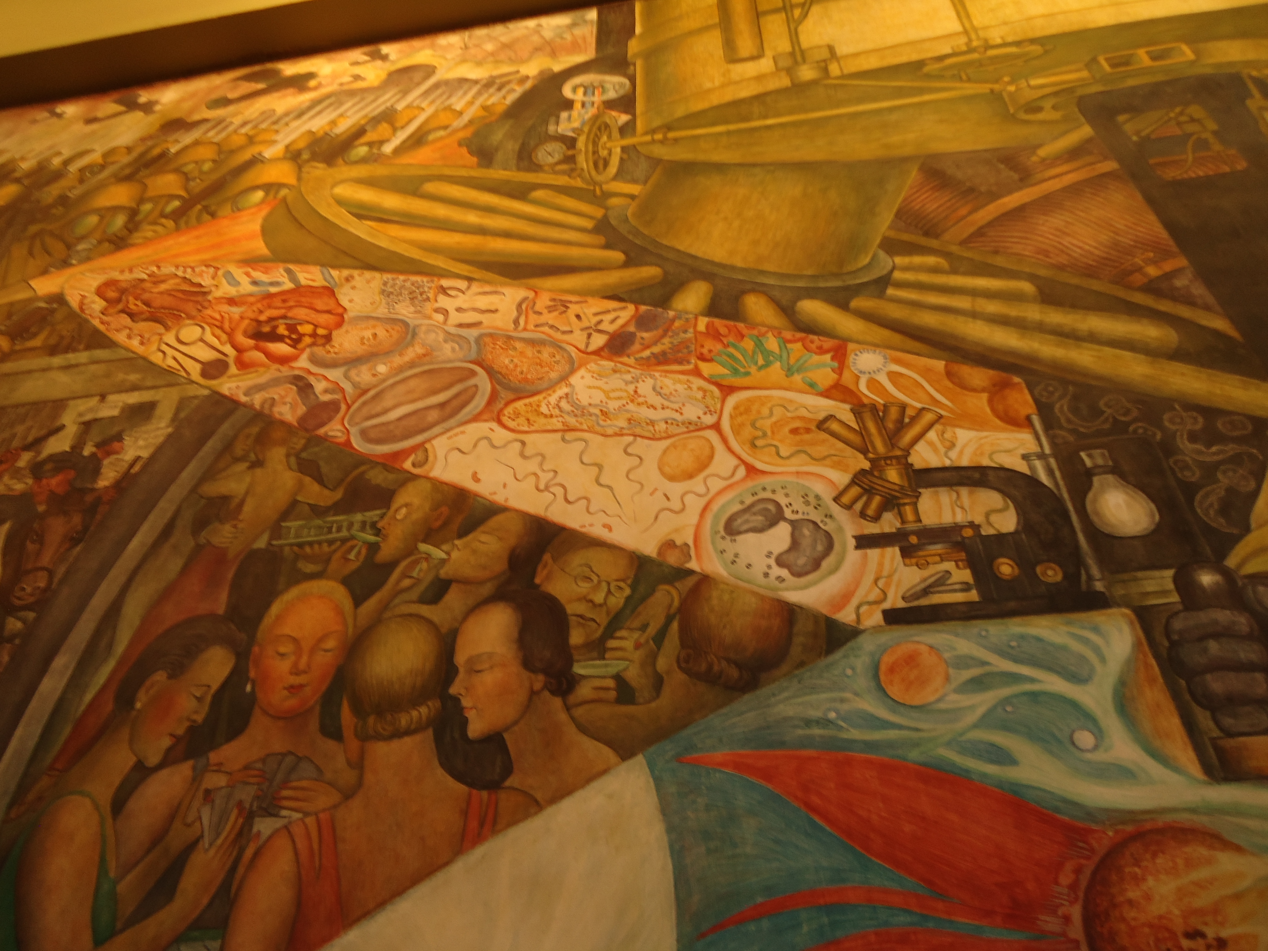 Man at the Crossroads by Diego Rivera in the Palacio de Bellas Artes, Detail Microscope